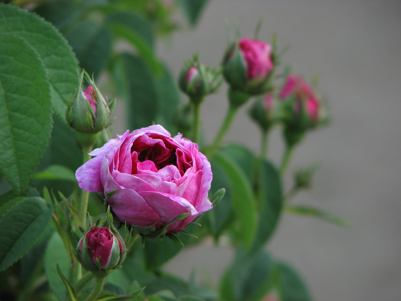 Old Rose Gallica Charles de Mills シャルル ド ミル この写真は，雑誌「National Trust for Scotland 」に掲載されました．